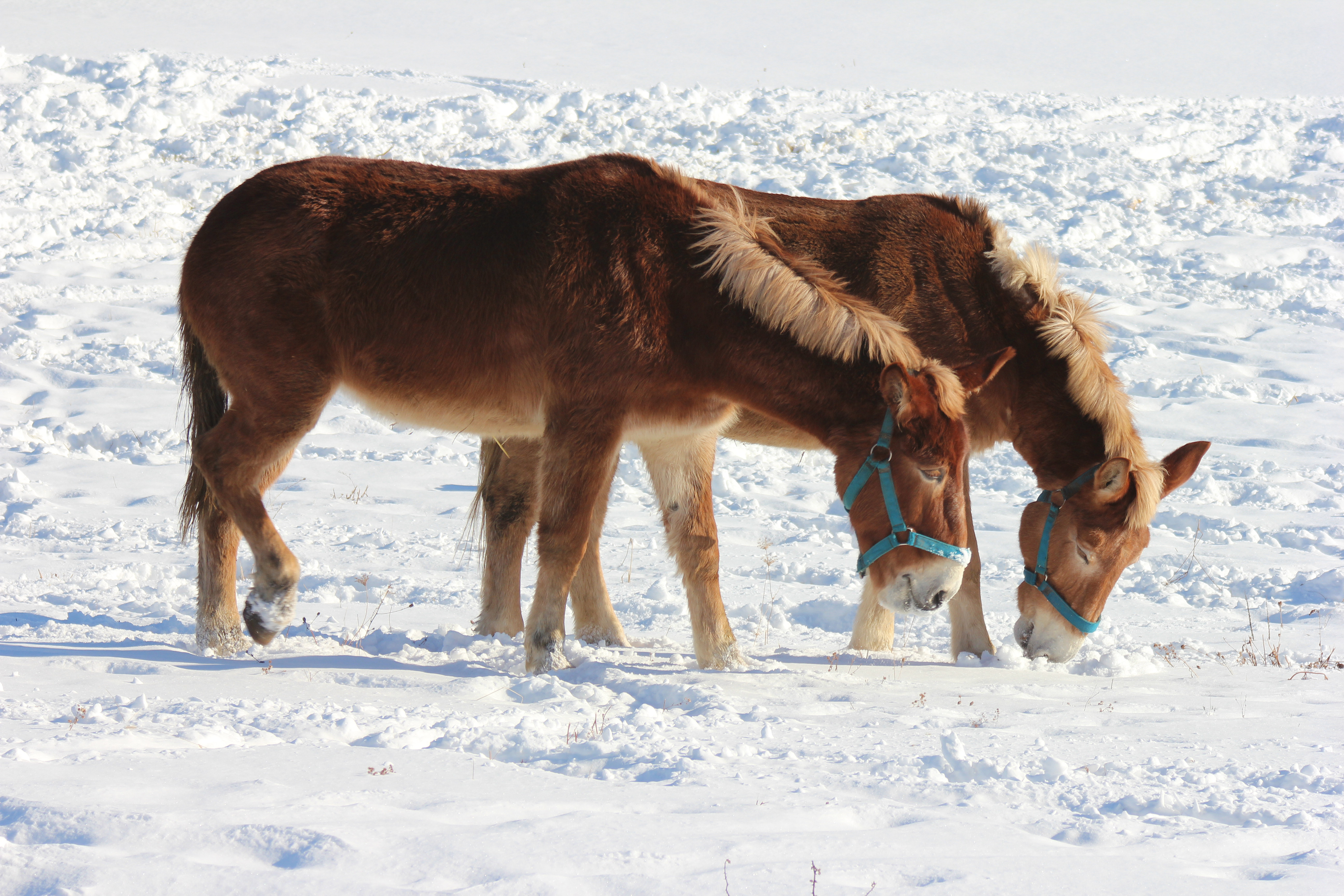 Mules leisurely enjoying the sun and the snow